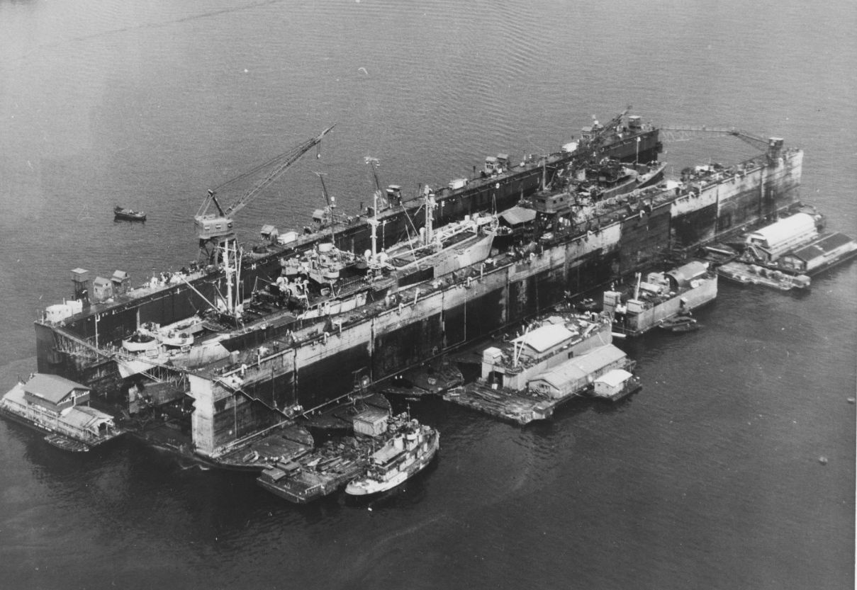 United States Navy floating Dry Dock Number 2 (ABSD-2, later redesignated as AFDB-2) in Seeadler Harbor, Admiralty Islands in 1945. seaplane tender (AVP) and "Liberty" type cargo ship (possibly a Navy AK) in the drydock.